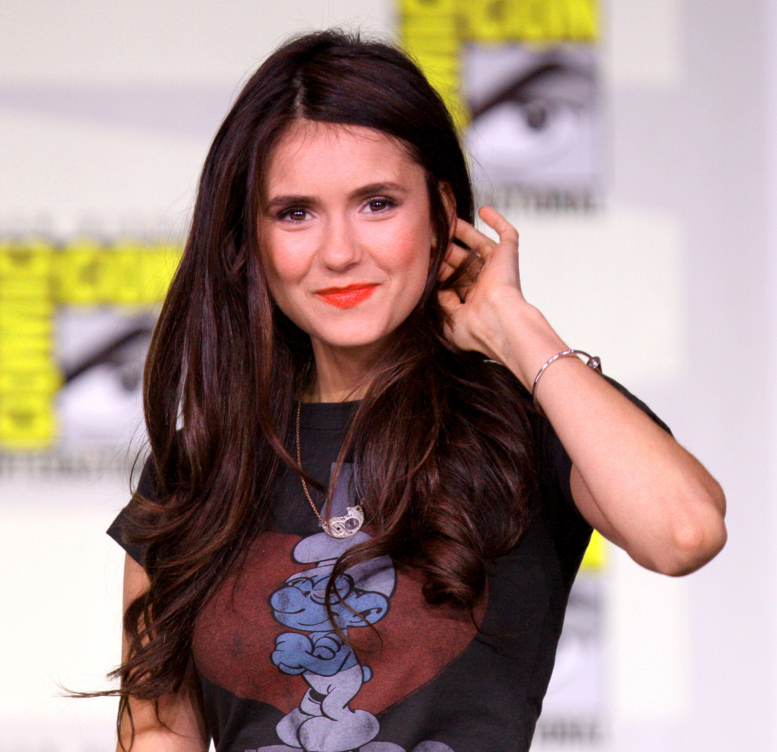 Nina Dobrev at the 2011 San Diego Comic-Con.